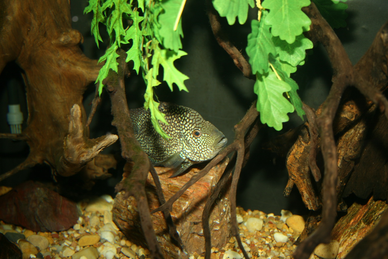 The Texas cichild has a large greyish high-backed body with bright blue scales and two dark spots, one at the center of the body and another and the end of its tail. Adult males have a large hump on their heads. This species can grow up to 30 cm. (wikipedia)